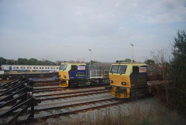 Network Rail trains in the sidings, Tonbridge These are rail maintenance trains.